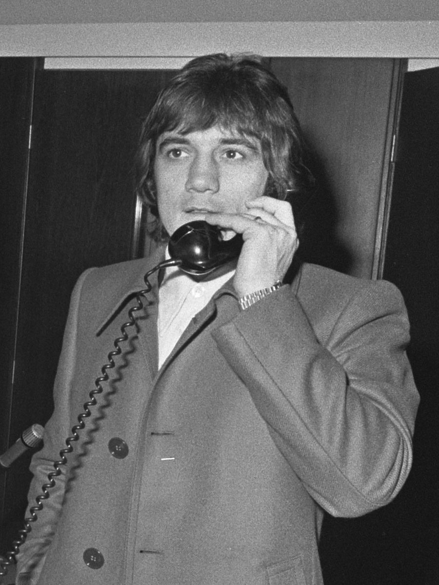 Roberto Boninsegna calling to Italy from a motel in Rotterdam. 19 November 1974, one day before the match of the national football teams of the Netherlands and Italy (3-1).